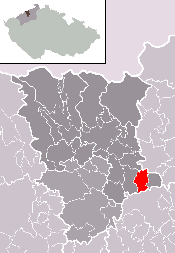 Location of Bořislav municipality within Teplice District and administrative area of Teplice as a Municipality with Extended Competence.